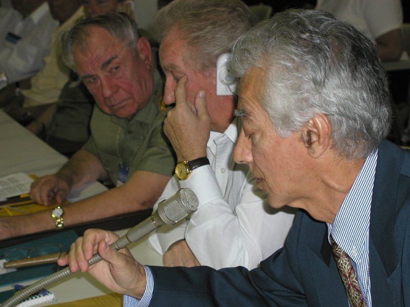 Sergo Mikoyan, son of Soviet Presidium member and special envoy to Cuba in November 1962 Anastas Mikoyan, takes the microphone while former Defense Minister Marshal Dmitry T. Yazov and ex-KGB Latin America specialist Nikolai S. Leonov listen.